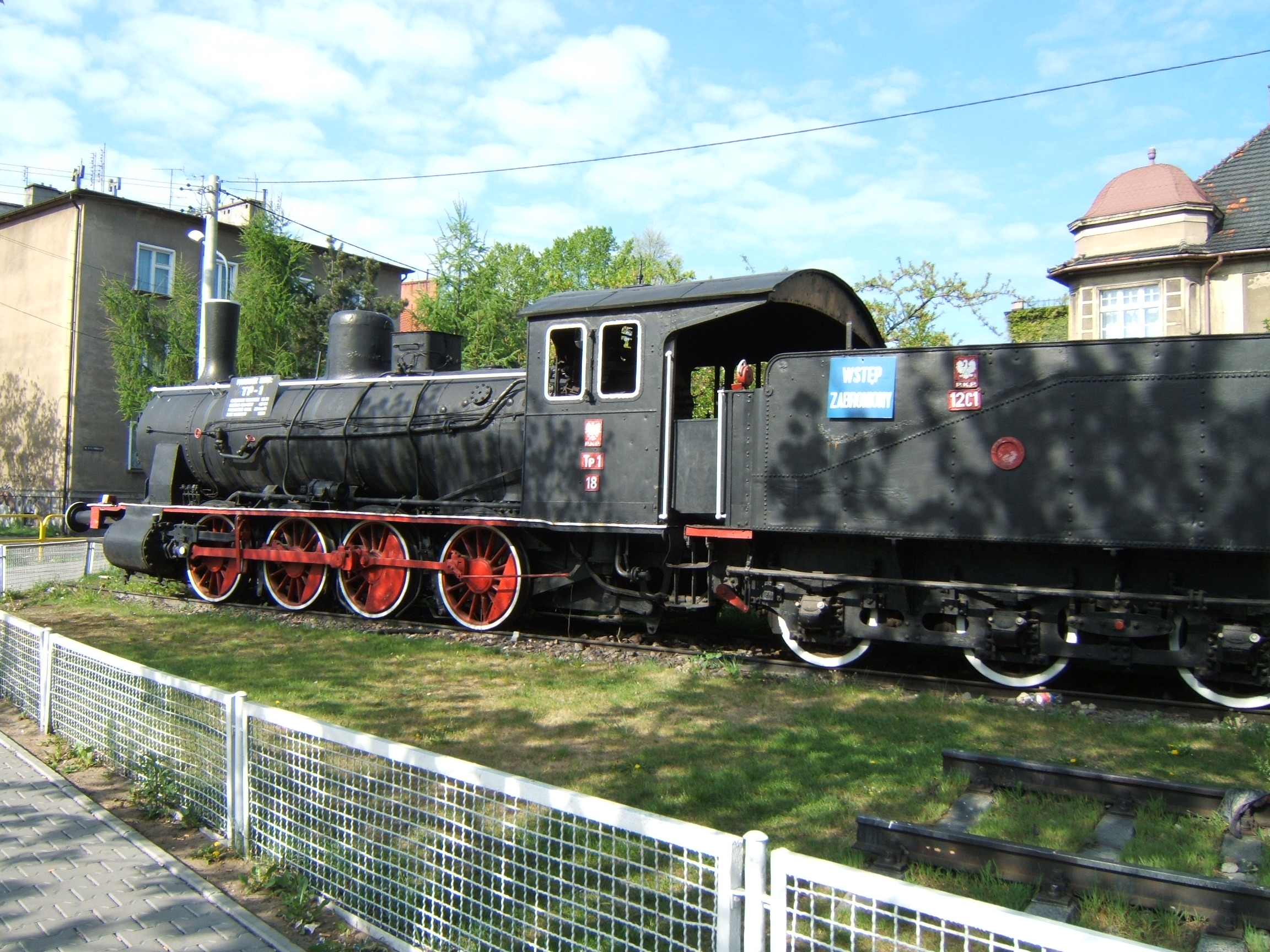 Tp1-18 steam locomotive in Tarnowskie Góry